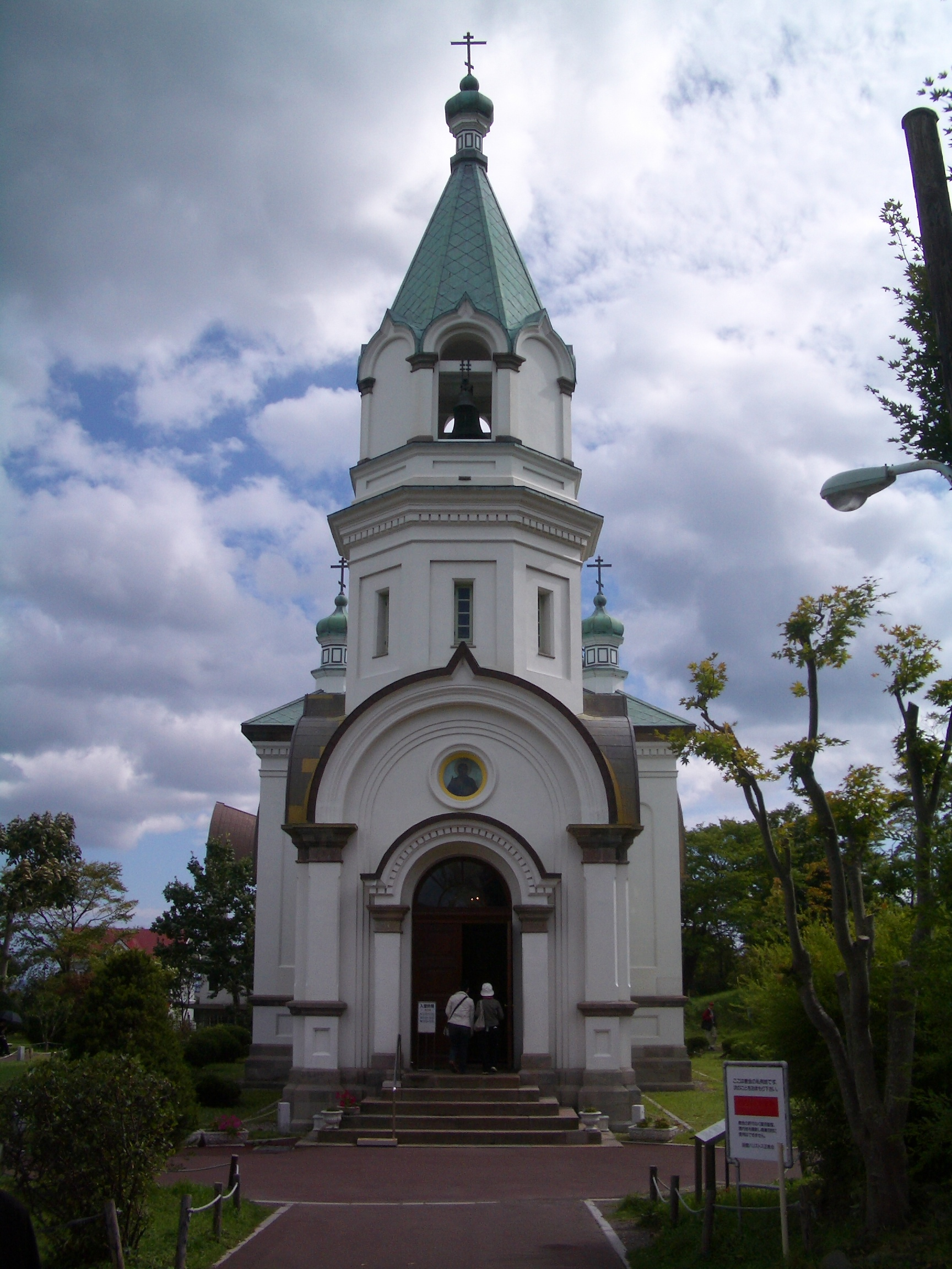 Photo of Hakodate Orthodox Church, Hakodate, Japan.